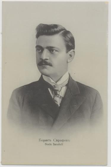 Portrait of Boris Sarafov